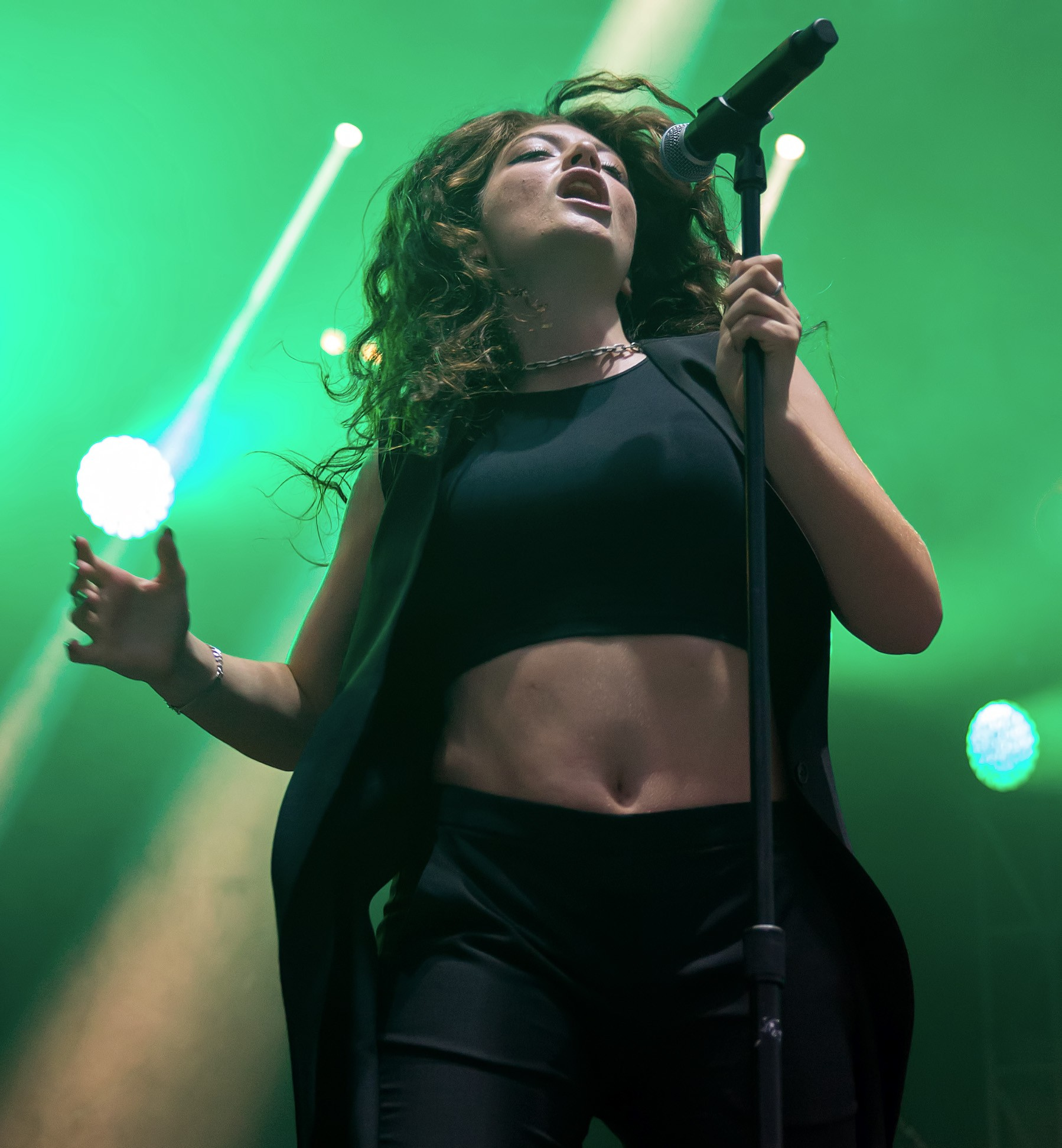 Lorde performing at Austin City Limits Music Festival (ACL) in Austin, Texas, 2014-10-12.